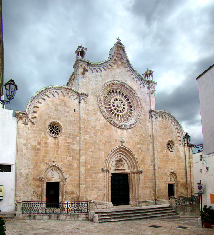 Cocathedral of Santa Maria Assunta, Ostuni, Apulia, Italy.